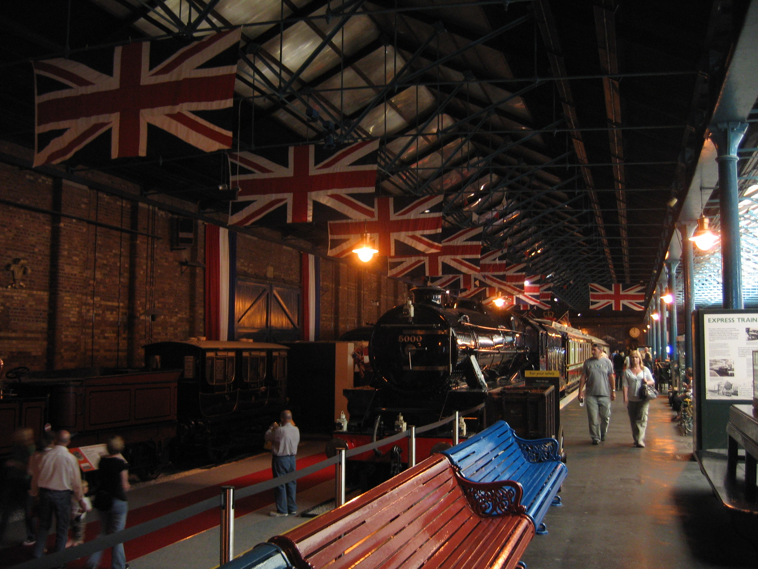 Royal Saloons on exhibit in National Railway Museum, York